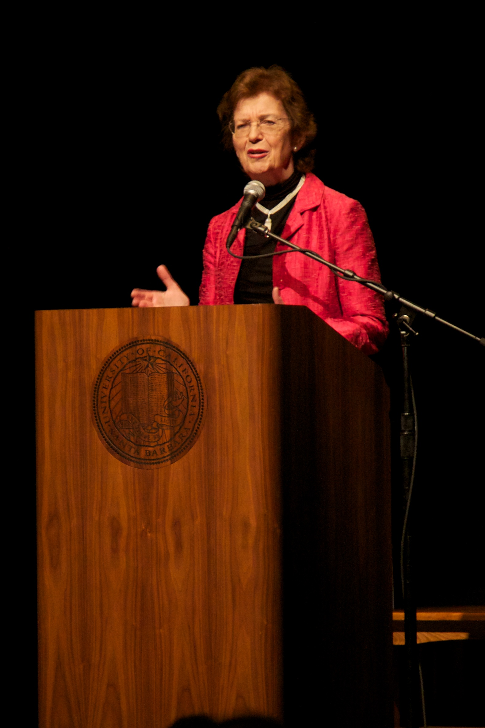 Mary Robinson at University of California, Santa Barbara 10/21/2011